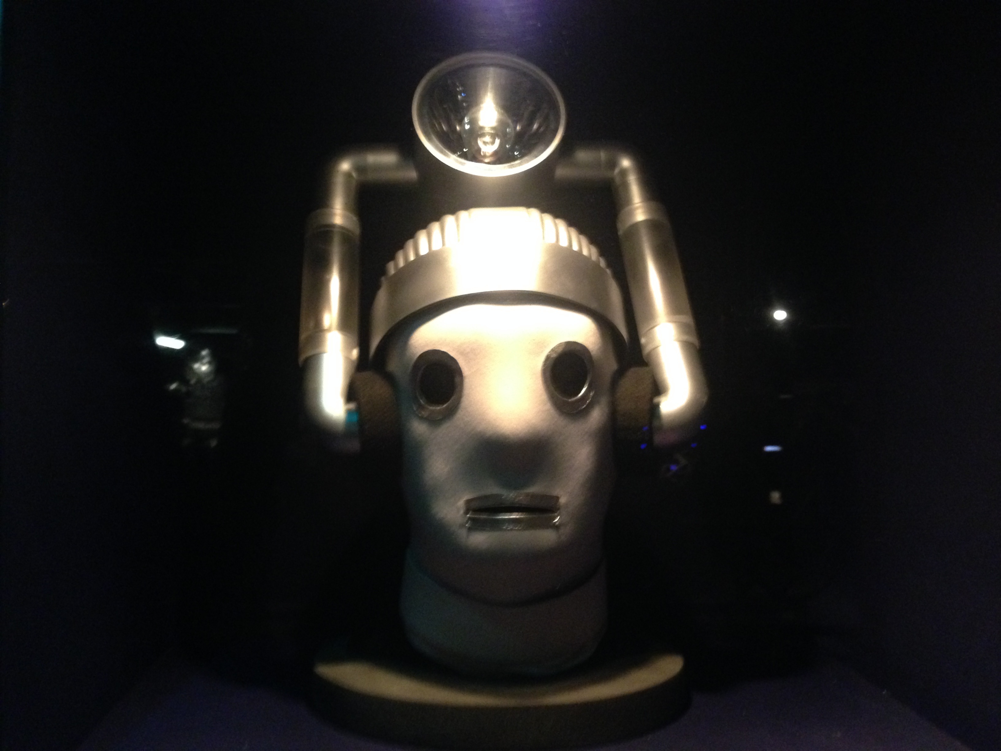 La Doctor Who Experience à Cardiff Doctor Who Experience